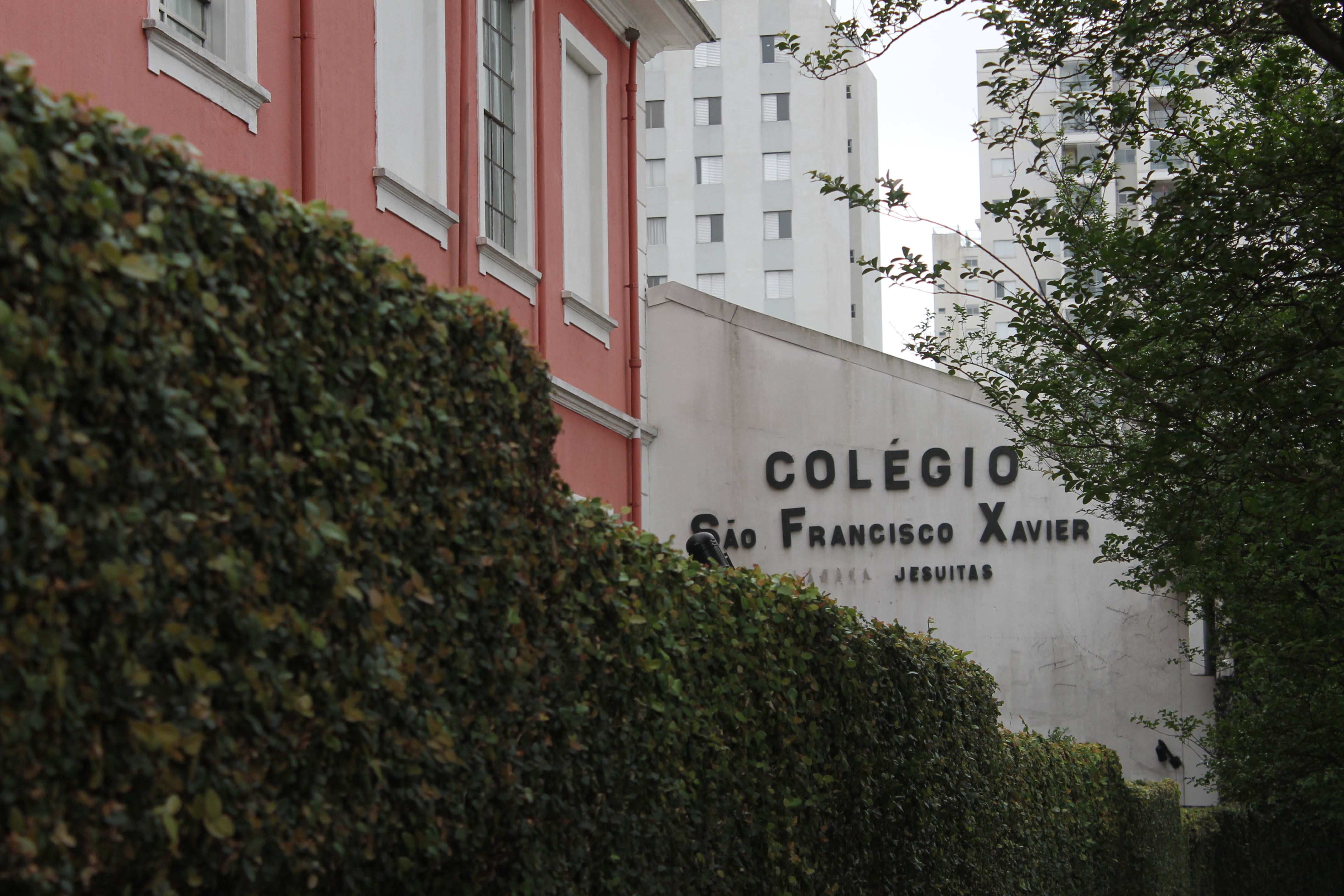 Imagem da parte leste do Colégio São Francisco Xavier em São Paulo (SP), Brasil